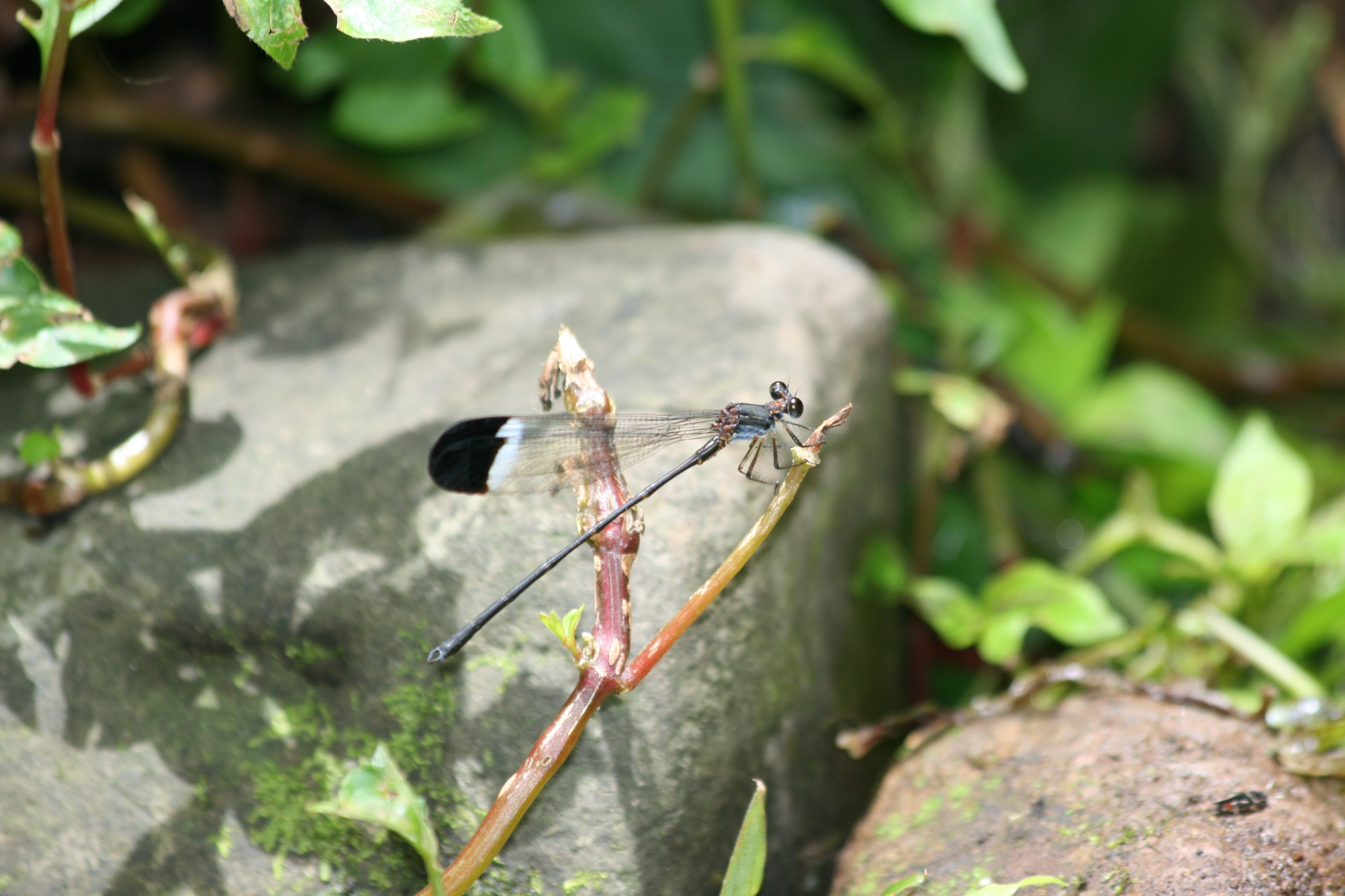 Male individual of Paraphlebia zoe.